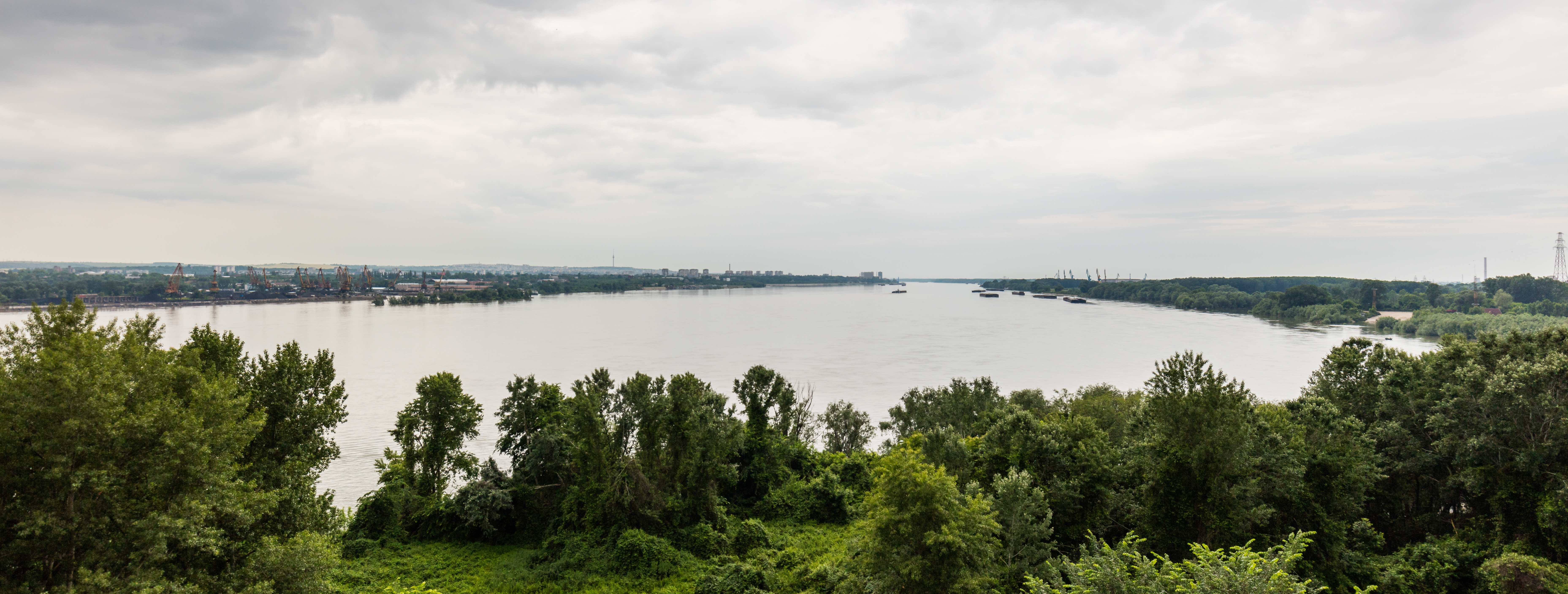 Danube river by Rousse, Bulgaria